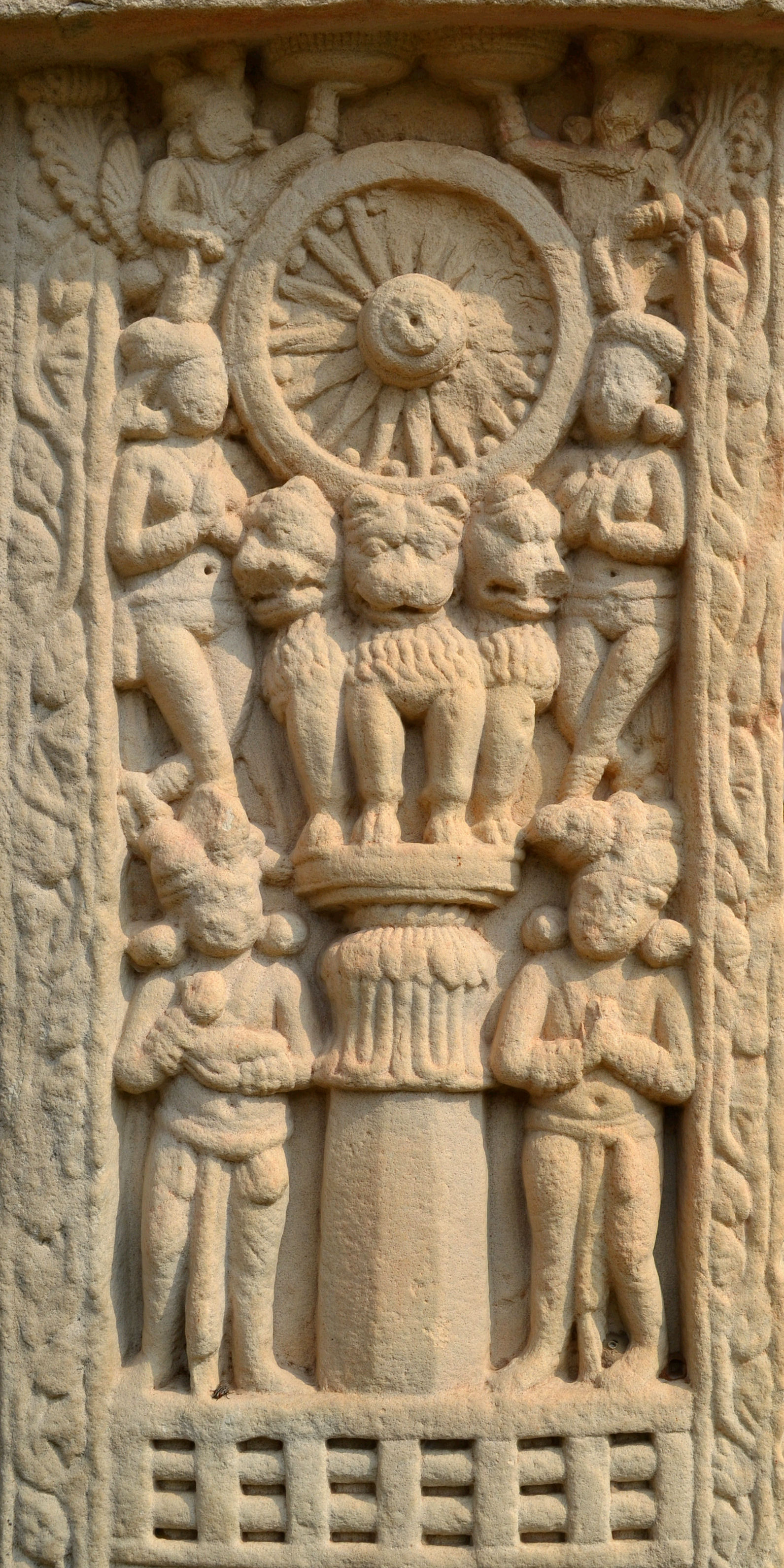 Adoration of the pillar of Ashoka Sanchi Stupa 3 South Gateway Right pillar top panel